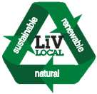 Green marketing for Long Island Vodka